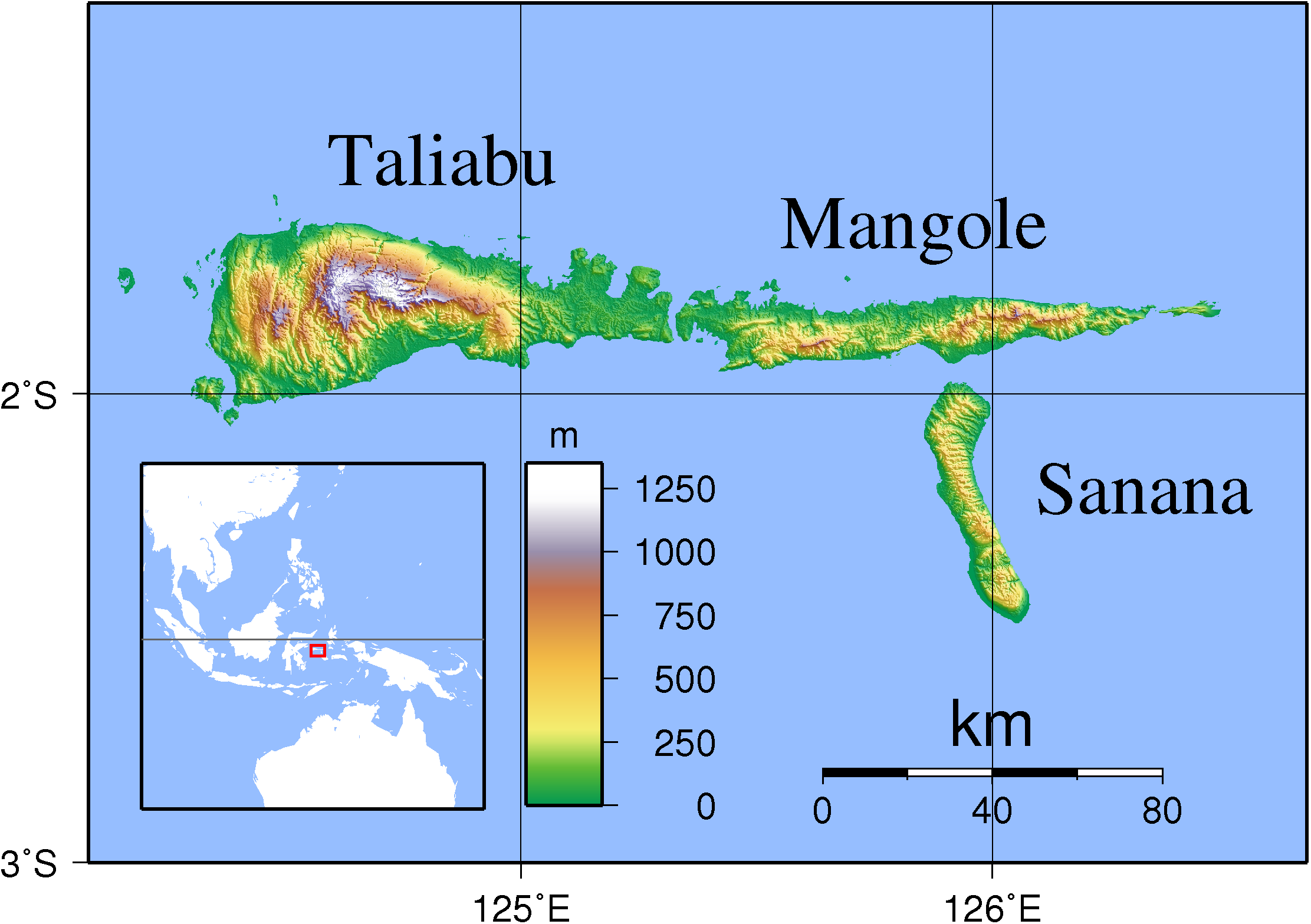 Topographic map of Sula Islands, Indonesia. Created with GMT from SRTM data.